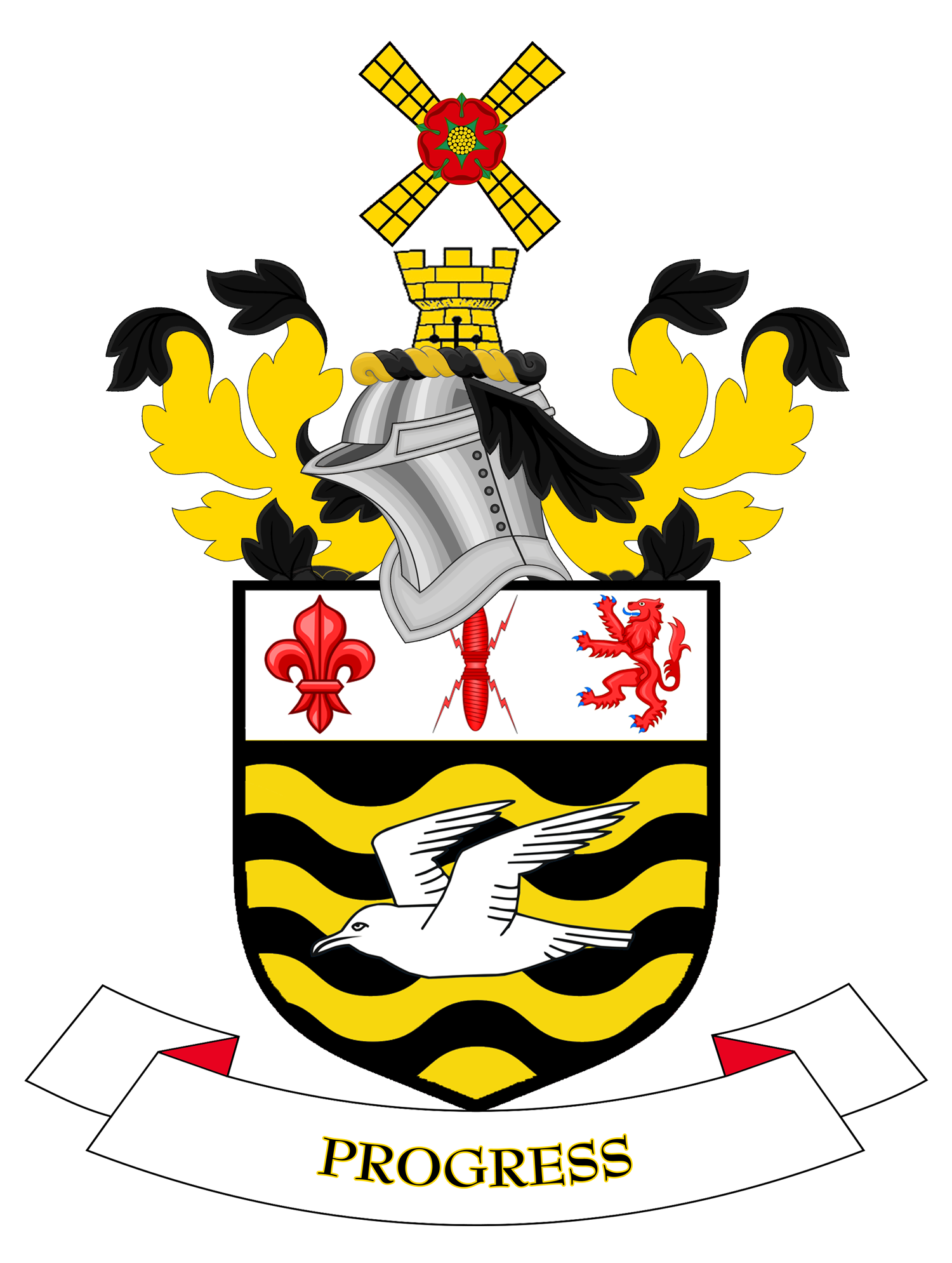 The Coat of arms of Blackpool Borough Council, the local government authority for the Borough of Blackpool, in Lancashire, England. The blazon is:ARMS: Barry wavy of eight Sable and Or a Seagull volant proper on a Chief Argent a Thunder-Bolt also proper between a Fleur-de-Lis and a Lion rampant both Gules.CREST: On a Wreath of the Colours on the Battlements of a Tower Or the Sails of a Windmill saltirewise proper surmounted in the centre by a Rose Gules barbed and seeded also proper.